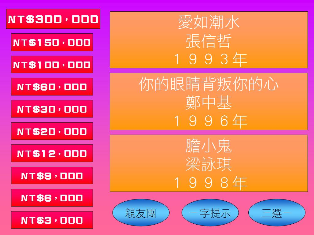 Screen Shot Simulation of the One Million Star TV Show